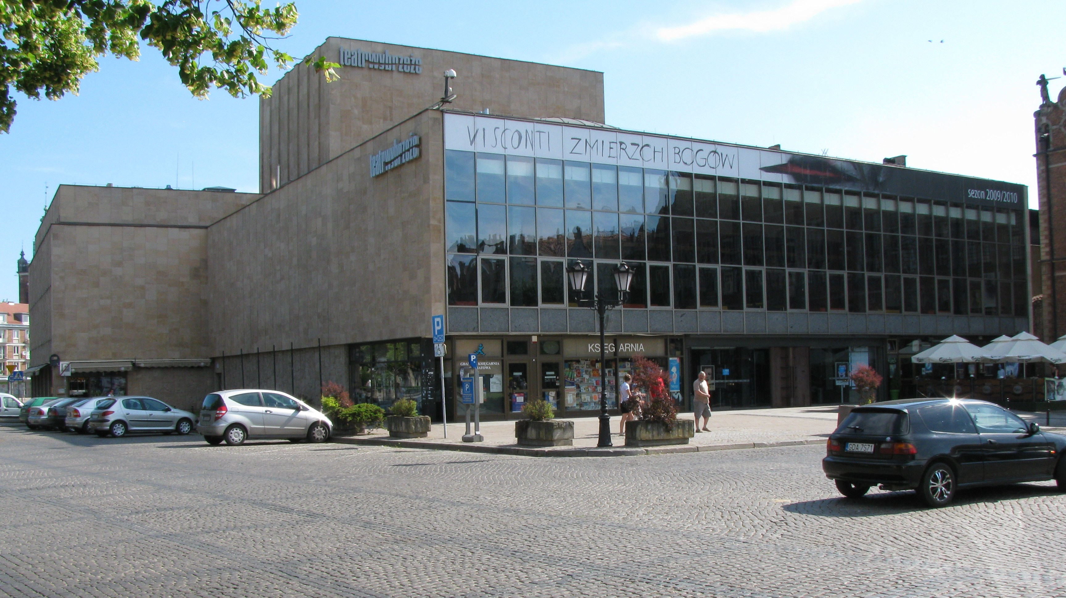 Wybrzeże Theatre in Gdańsk (Poland).